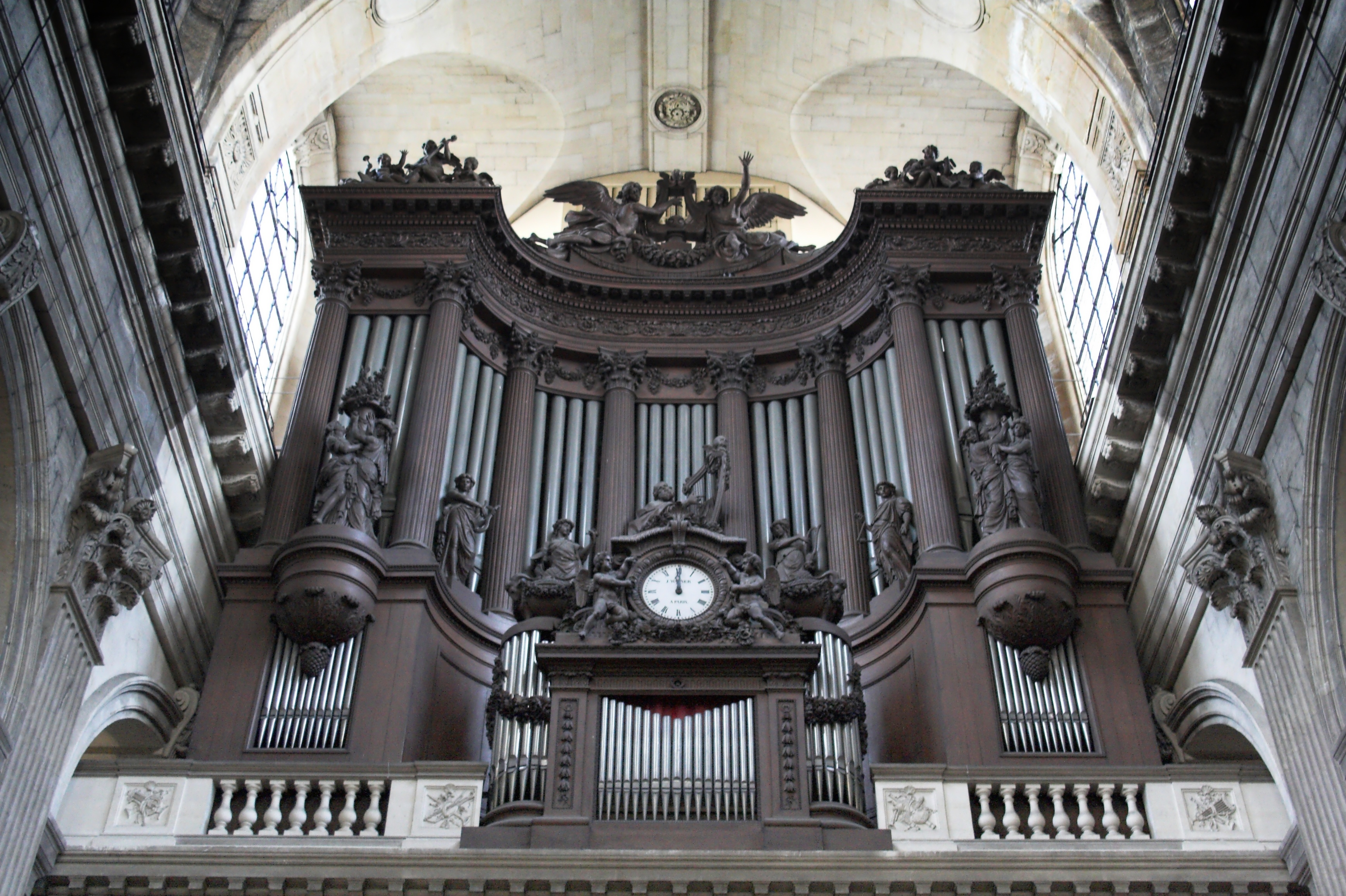 Great organ of St Sulpice church, Paris, France, viewed from the main nave